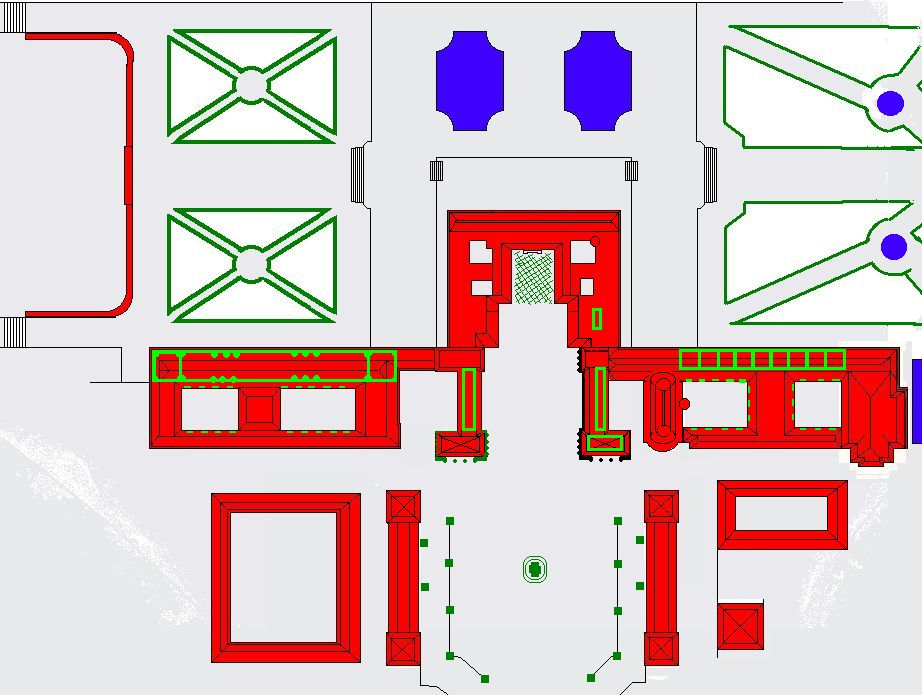 Versailles as it was as a museum under Louis Philippe, a large picture gallery in the south-wing replaced the beautiful apartments of the princes (light green). There are salons of paintings in the wing of the nobles. A new pavilion (dark green) was built to complete the front after plans by Gabriel. The forecourt is now full of statues (green). There are stairways and galleries throughout the building and the open galleries of stone flanking the inner courts in the wings are enclosed with windows. The "cour de marbre" in front of the kings room has been replaced by cobblestones and the gilded gates in the forecourt were removed.